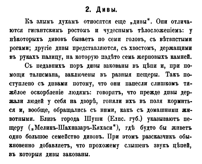 Azerbaijani myths about Divs published in 1890.